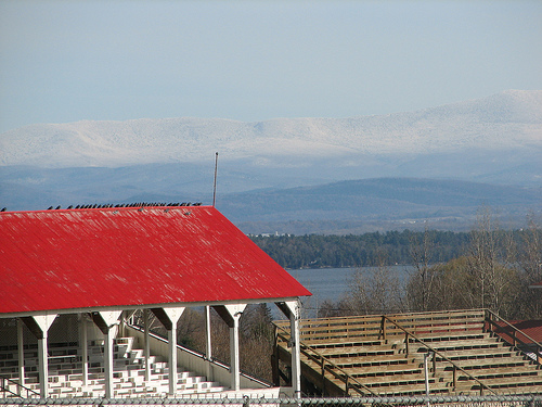 TheEssex CountyFairgrounds in Westport, NY